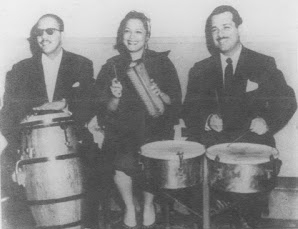 Abelardo Valdés, Dominica Verges & Fernando Albuerne at Radio Progreso, Havana, 1950s. Verges was the singer for the Abelardo Valdés orchestra, while Albuerne was singing for the Hermanos Castro.